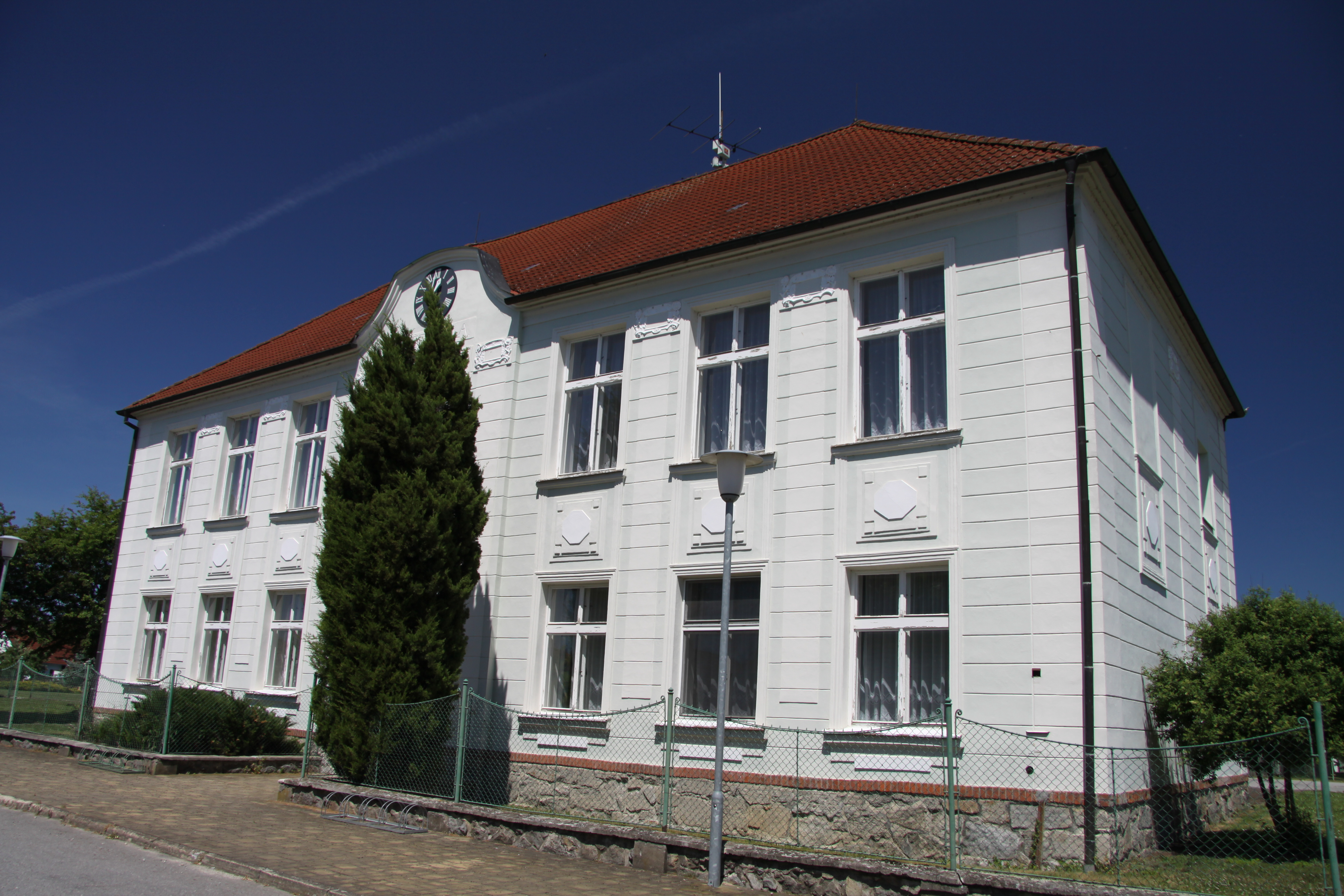 Dynín village in České Budějovice District, Czech Republic - Google Maps - Google Earth